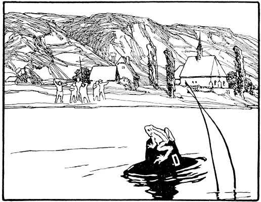 Illustration by Otto Ubbelohde to the fairy tale The Seven Swabians